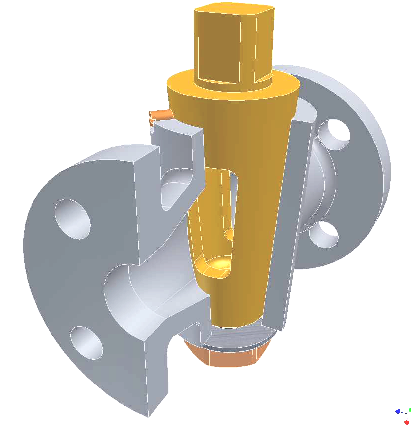 Conical Tap